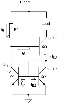 Wilson Fudh current source. Fig. 1. Wilson current mirror.